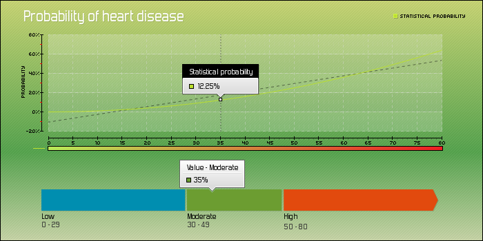 PChart Mixed classes